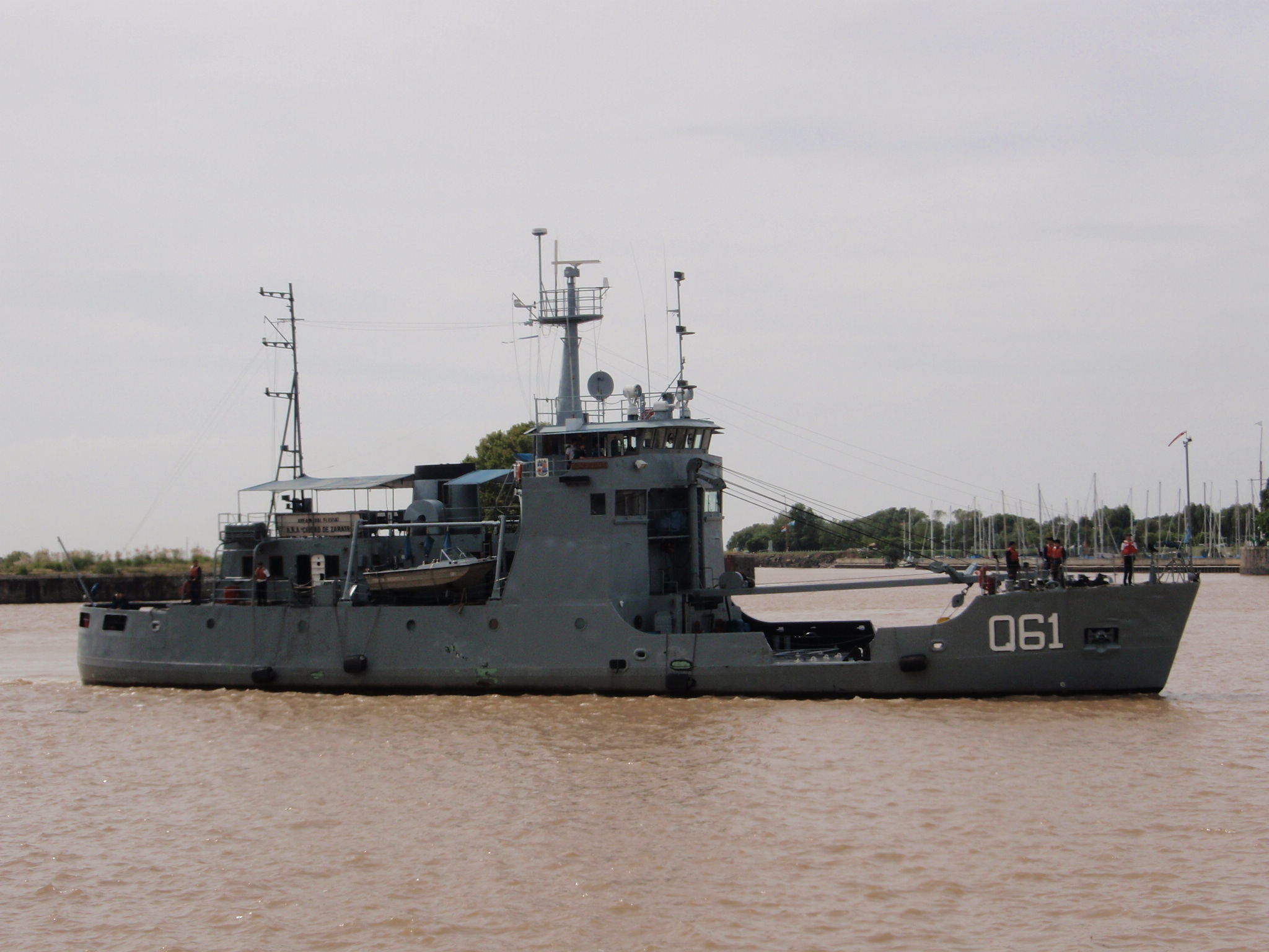 ARA Q62 at Buenos Aires dock